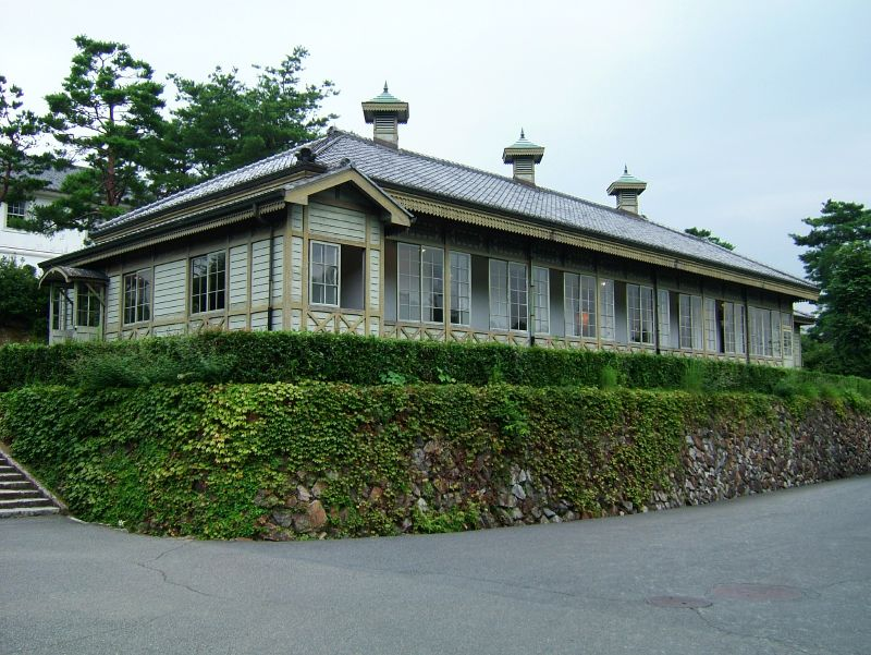 Originally from Tokyo Built in 1890 From the Meiji Mura village museum, Japan.